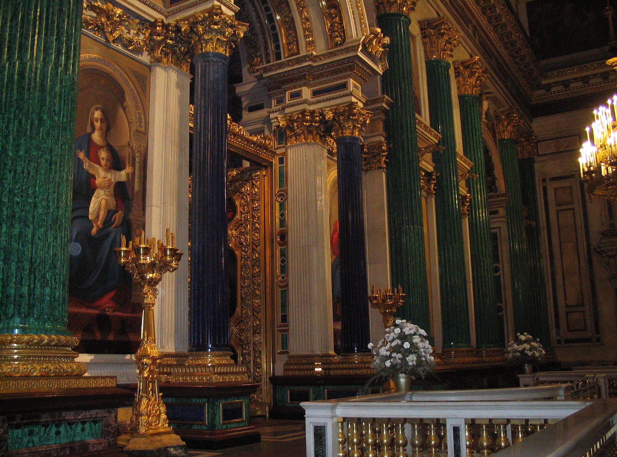 Inside of St. Isaac's cathedral showing the malachite and lapis lazuli columns. Taken by me 6/06, released into public domain.